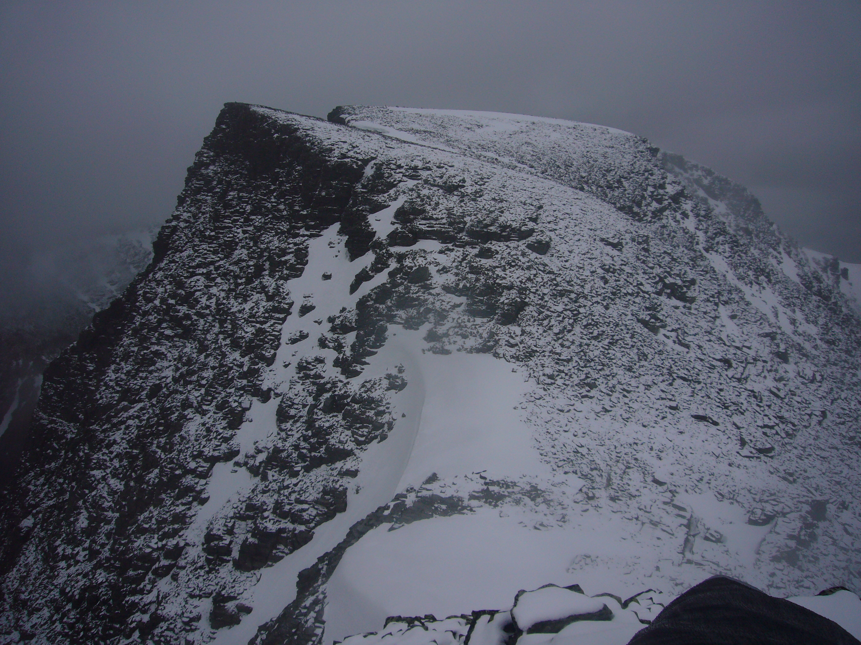 Snow-covered Vinjeronden as seen while ascending Rondeslottet during a summer day with exceptionally harsh weather.